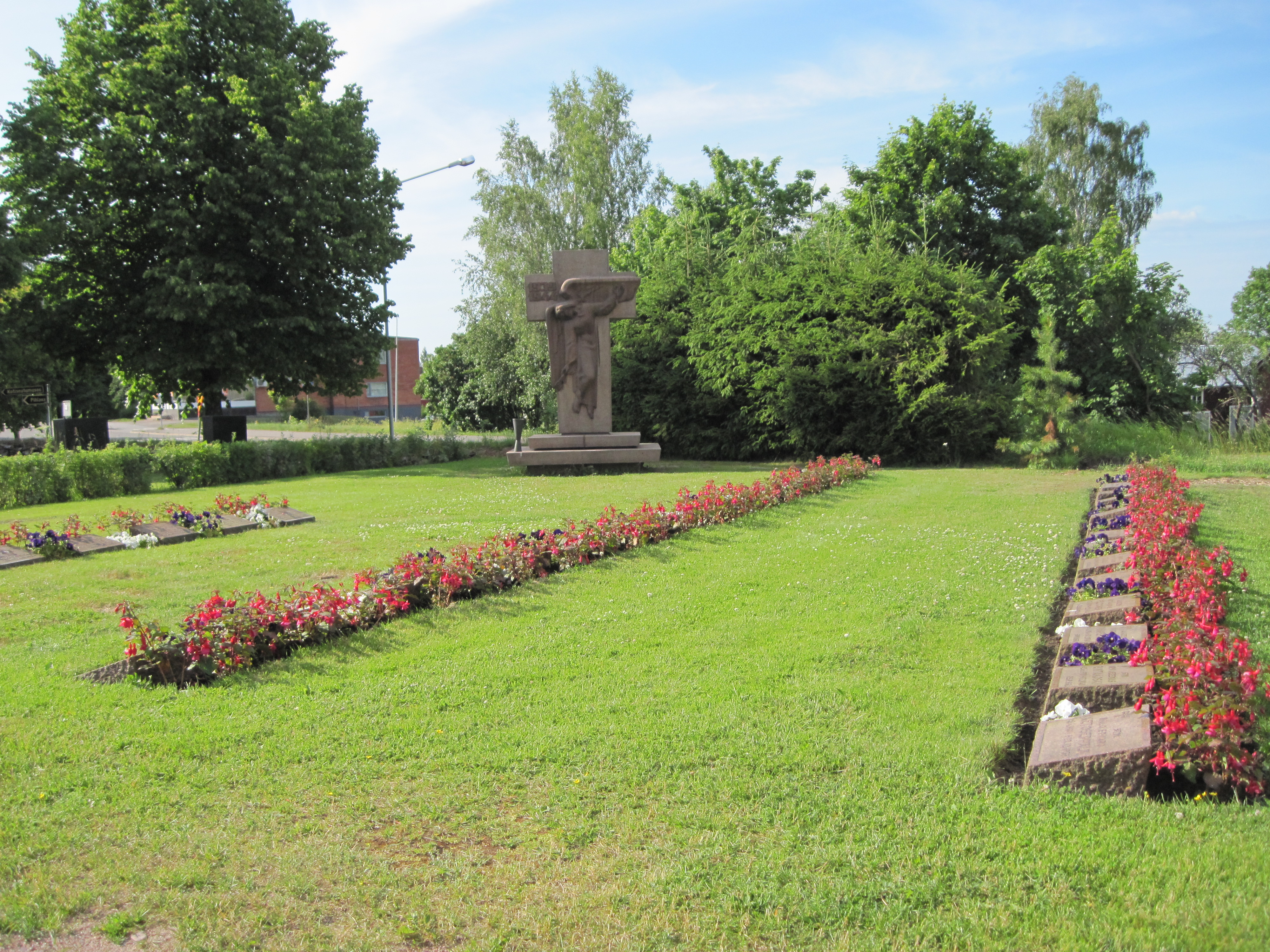 Military cemetary at church in Säkylä, Finland